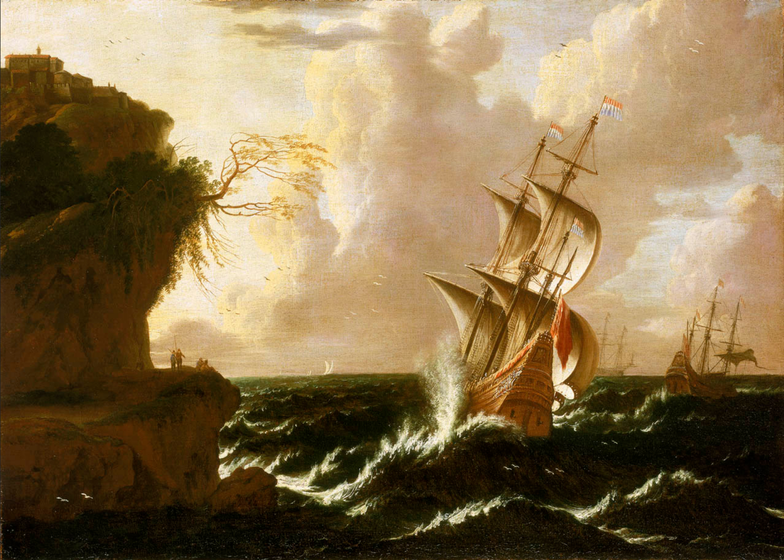 A storm scene painted soon after the artist moved to Italy. In the centre, in stern view, a Dutch ship with an ornately carved stern and flying the Dutch flag, is depicted close-hauled on the port tack. She flies the province of Holland's flag from the bow. Fortified buildings stand above an outcrop of land top left. Below is a rocky overhang with trees carefully positioned for dramatic affect. The inclusion of figures adds a sense of drama as they stand or sit under the overhang and watch the ship. Several of them have been fishing since their equipment rests nearby, but they also serve to highlight the potential plight of the ship running close to the rocks in a stormy sea. Spray splashes up the side of the ship in the brisk sea. Another ship on the right, also with a carved stern, has furled its sails. Although the artist has applied the typical devices a ship in a storm, he has also introduced a flamboyance and colour influenced by his arrival in Italy. The painting reflects the golden glow of the Mediterranean in the sky, top left, with the craggy cliffs, jagged moss-laden trees and the bravura of Salvator Rosa, 1615-73. Van Plattenberg was a pupil of van Eertvelt whom he followed to Italy. He moved from Florence to Paris where he changed his name to Plattemontagne.